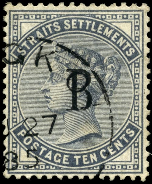 10c overprint stamp of 1882